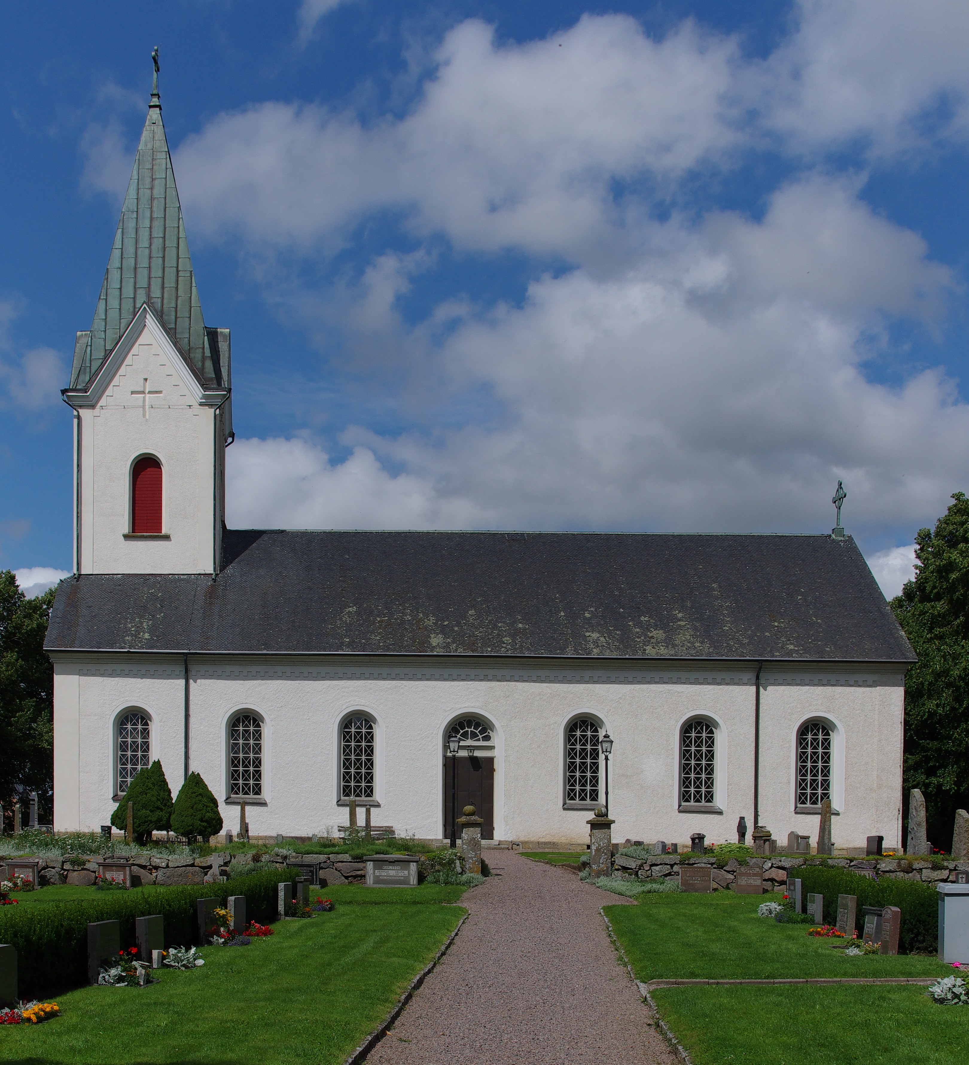 Skallmeja kyrka (swedish:Skallmeja church) in Skallmeja parish, Skåning hundred, Västergötland and Skara municipality, Västragötaland county, Sweden.